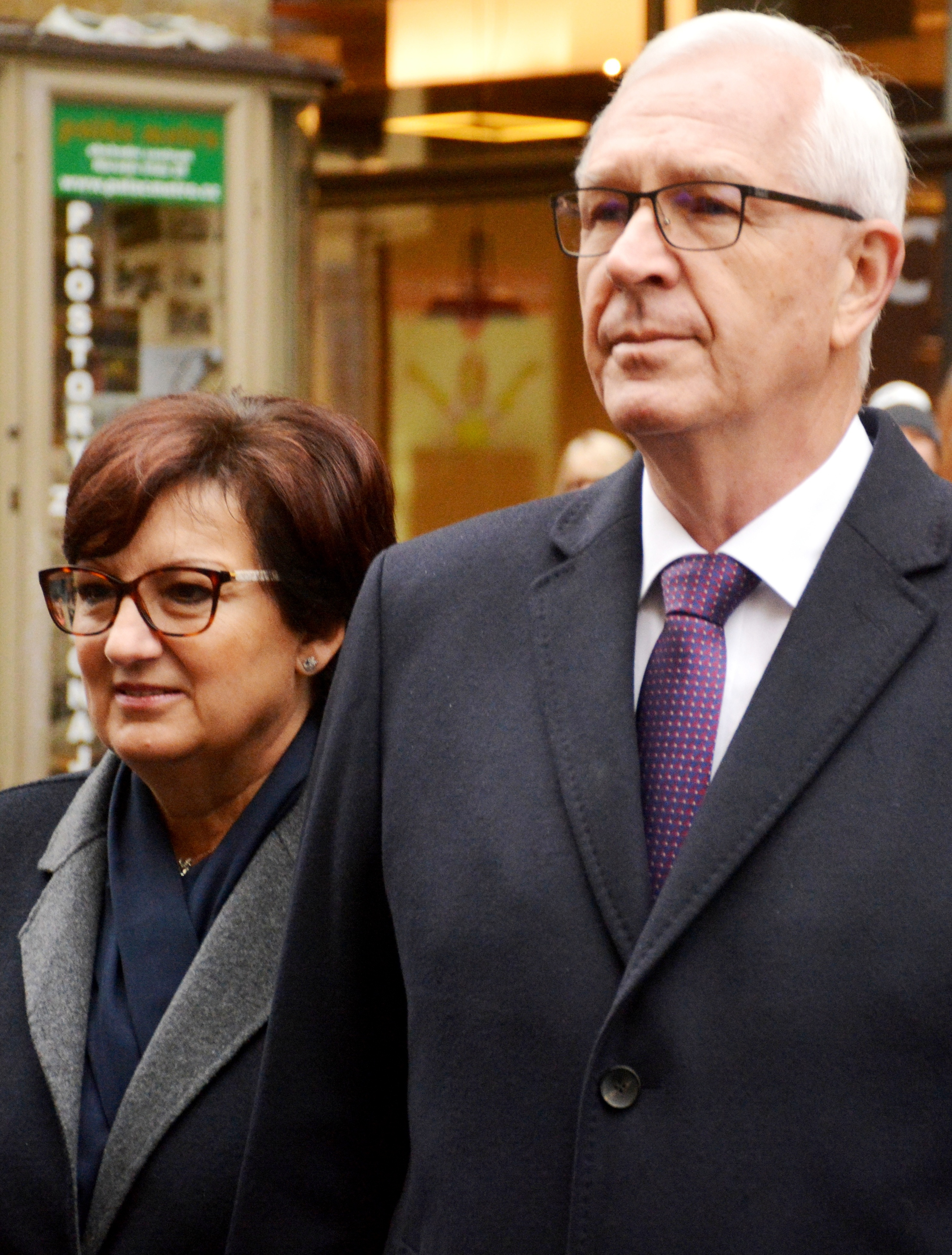 Jiří Drahoš, candidate for the President of the Czech Republic in 2018 election, with his wife